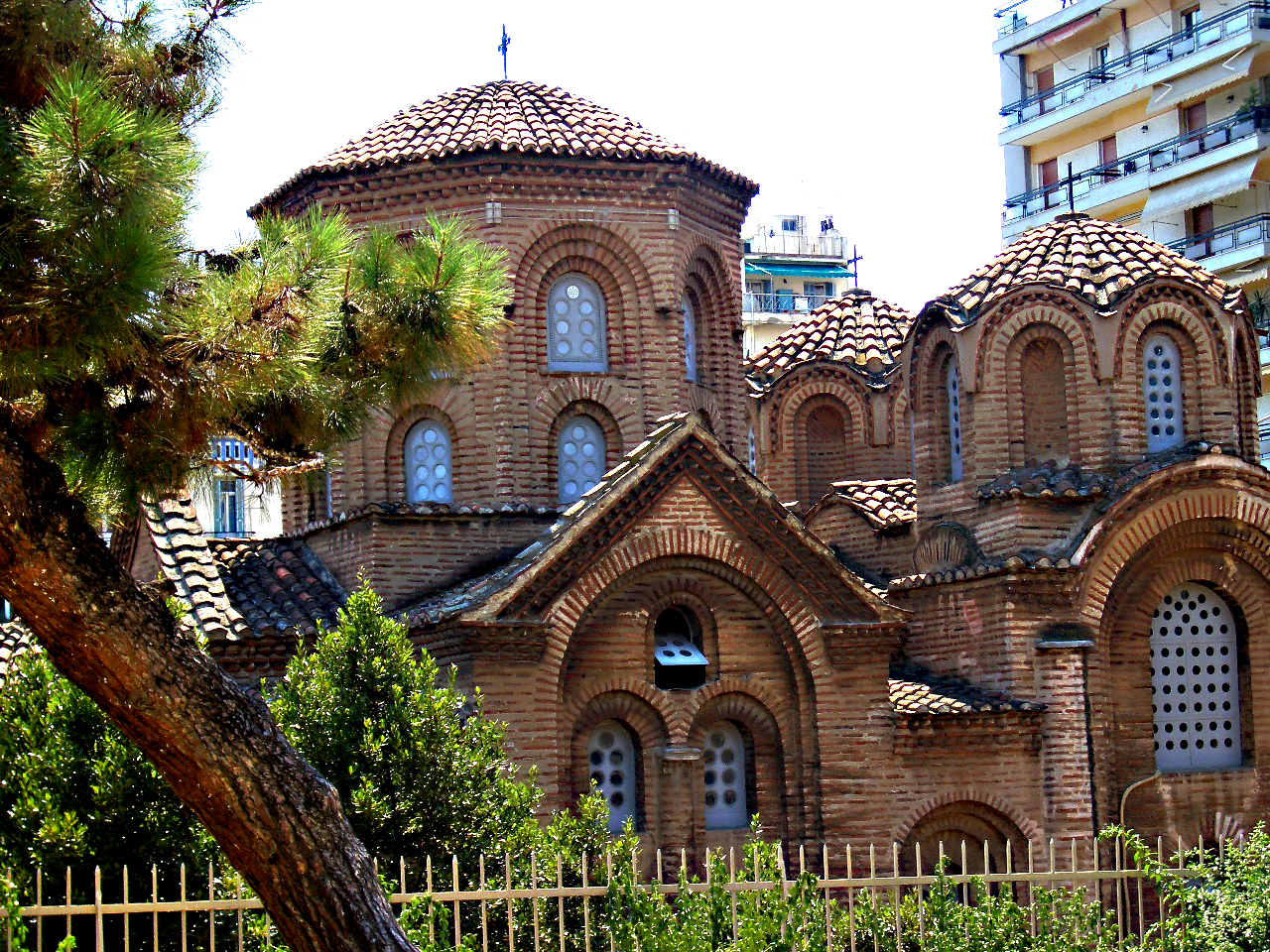 The Byzantine Church of Panagia Chalkeon in Thessaloniki